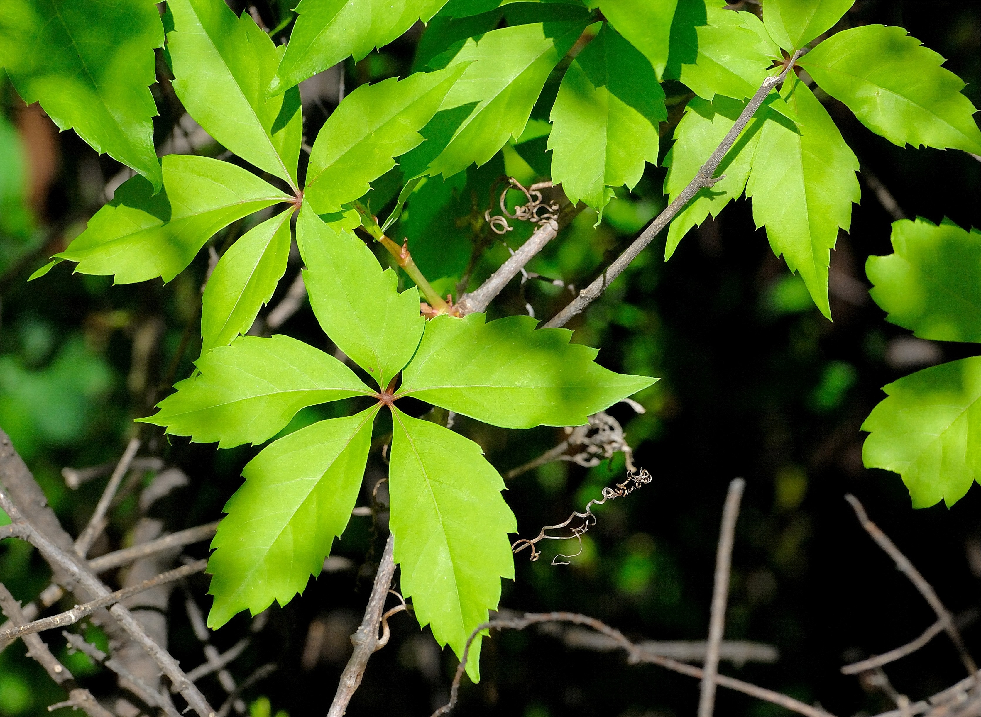 False Virginia creeper in Jan Celliers Park, Pretoria